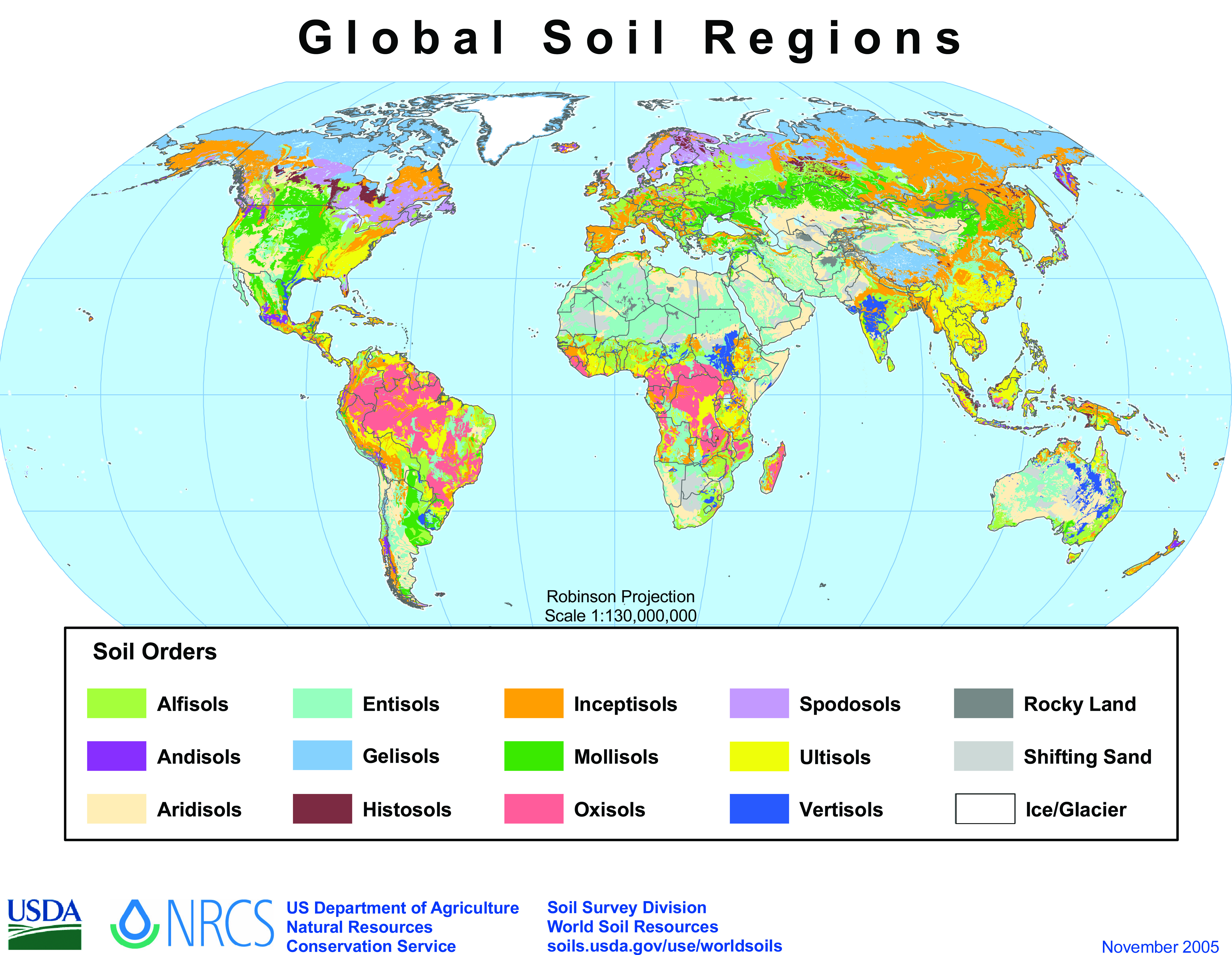 Map of global soil regions. Soil climate map, USDA-NRCS, Soil Survey Division, World Soil Resources, Washington D.C.